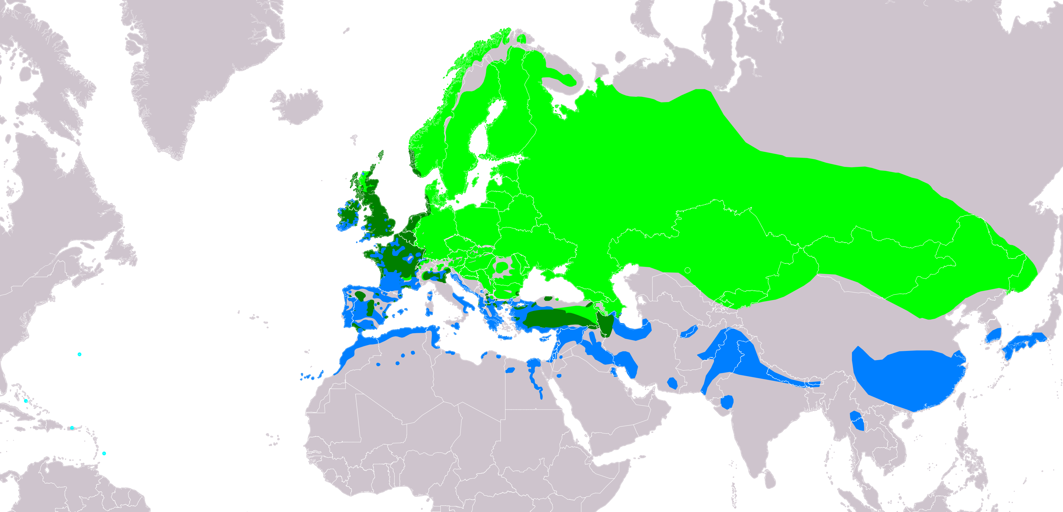 Distribution map of northern lapwing (Vanellus vanellus) according to IUCN version 2020.1 (Compiled by: BirdLife International and Handbook of the Birds of the World (2016) 2006.); key: Legend: Extant, breeding (#00FF00), Extant, resident (#008000), Extant, passage (#00FFFF), Extant, non-breeding (#007FFF)